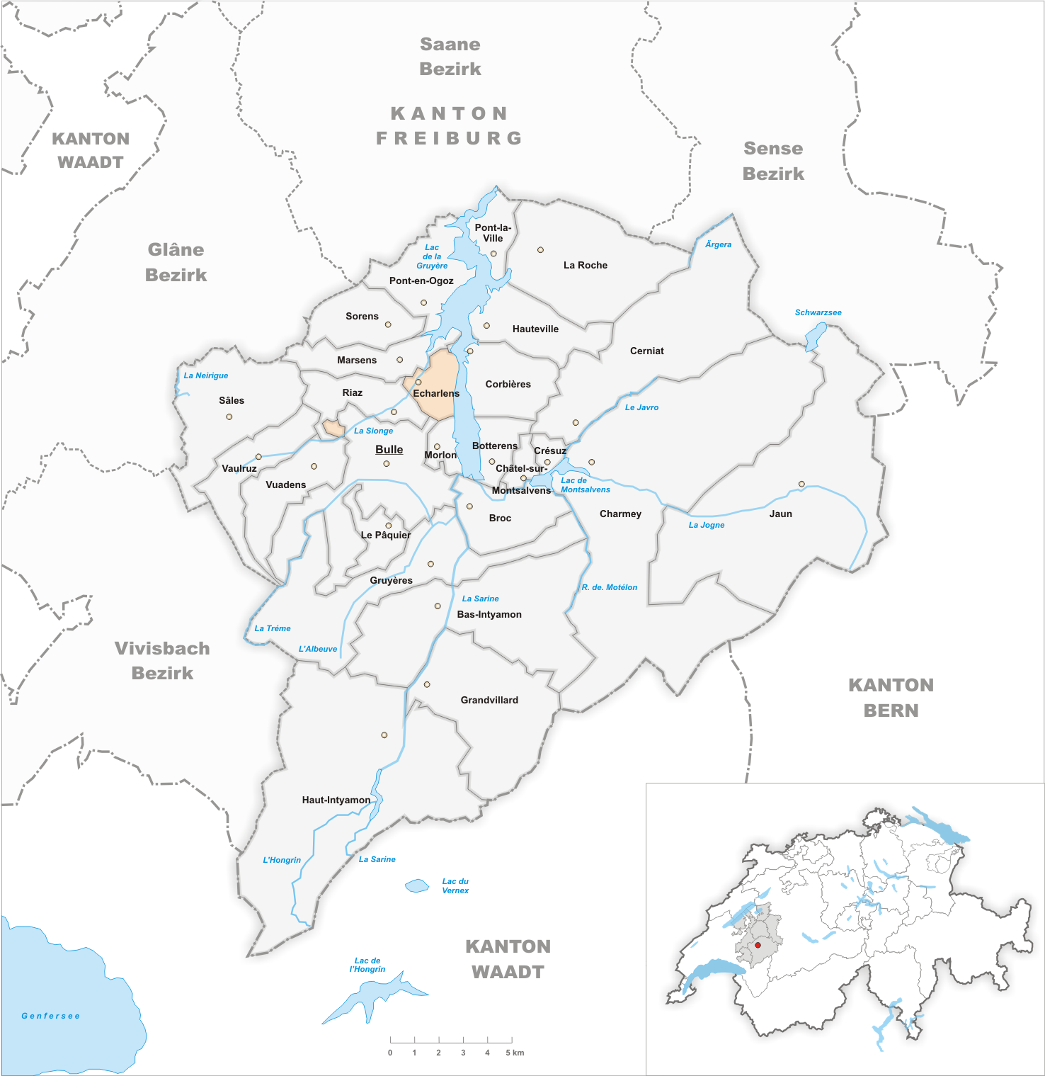 Municipality Echarlens